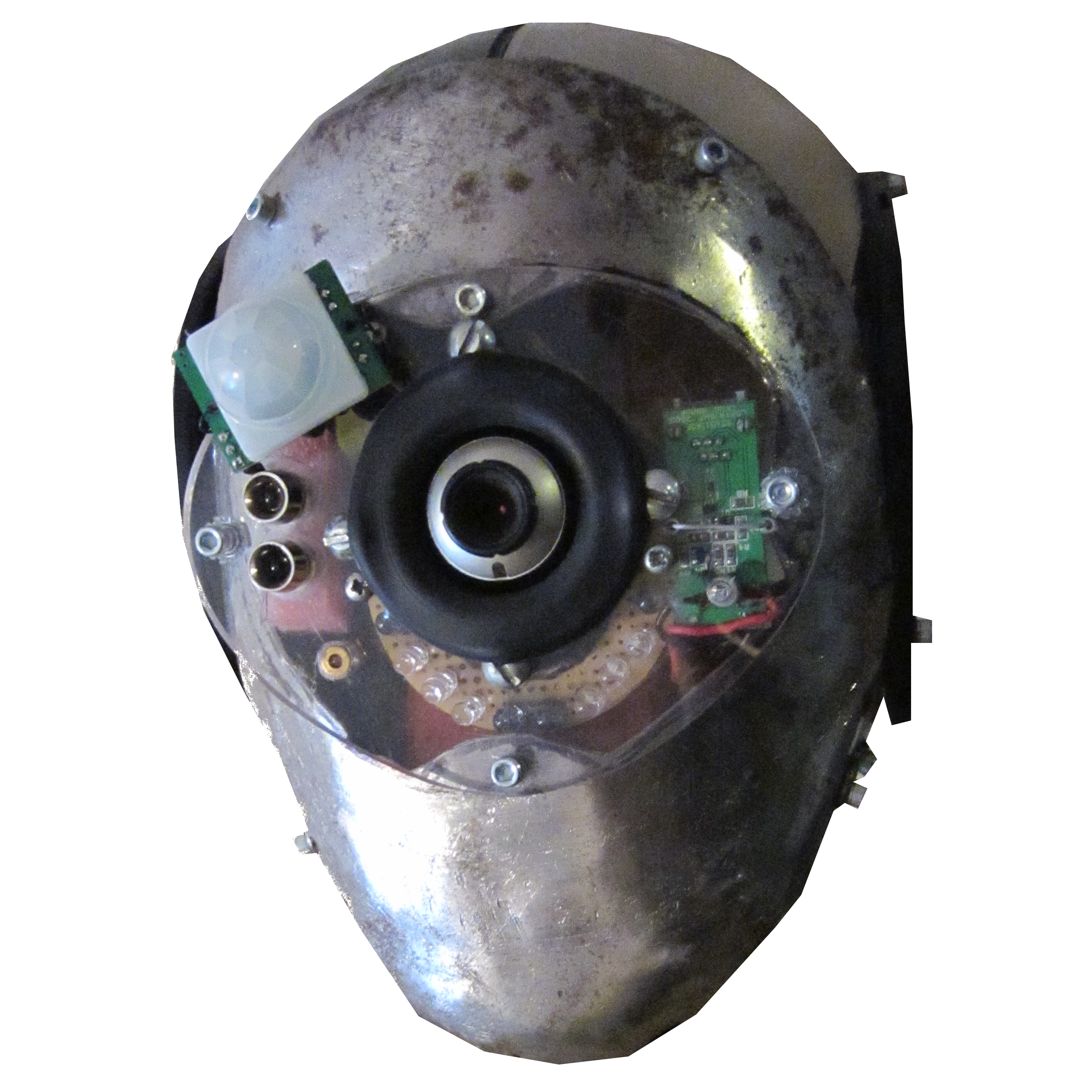 The head of the open-source robot named Salvius